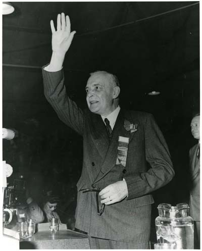 Louis St-Laurent elected party leader at the National Liberal Convention, Ottawa, August 5-7, 1948